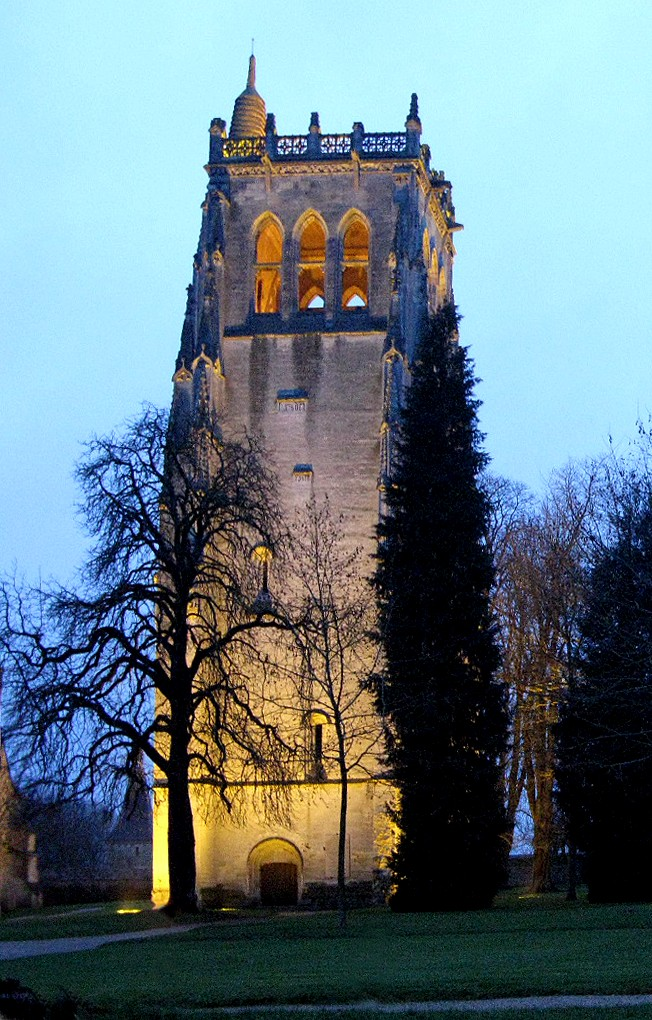 Tour Saint-Nicolas in abbaye du Bec-Hellouin at night.